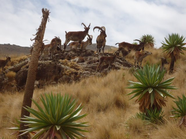 Semien mountains of national park is known endemic animals like Walia ibex,Gelada baboon....This park has also unique vegetation whic h shows the adaptation to cold and low dense atmosphere.